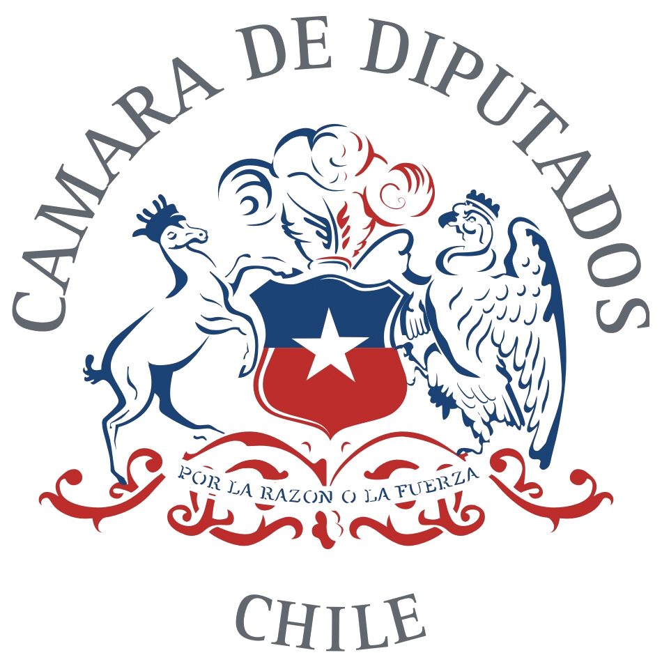 Emblem of the Chamber of Deputies of the Republic of Chile